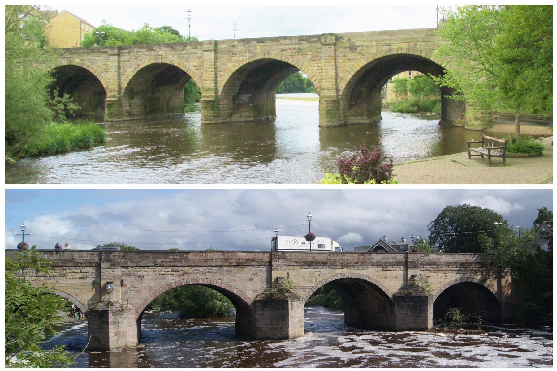 Collage of Wetherby Bridge from downstream (upper image) and upstream (lower image). Made from commons images File:Wetherby Bridge (11th August 2019) 003.jpg and File:Wetherby Bridge (geograph 4074920).jpg.